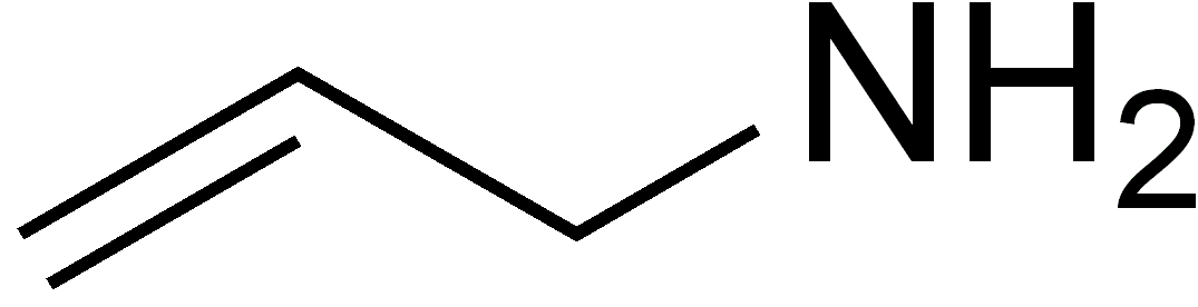 chemical structure of allyl amine